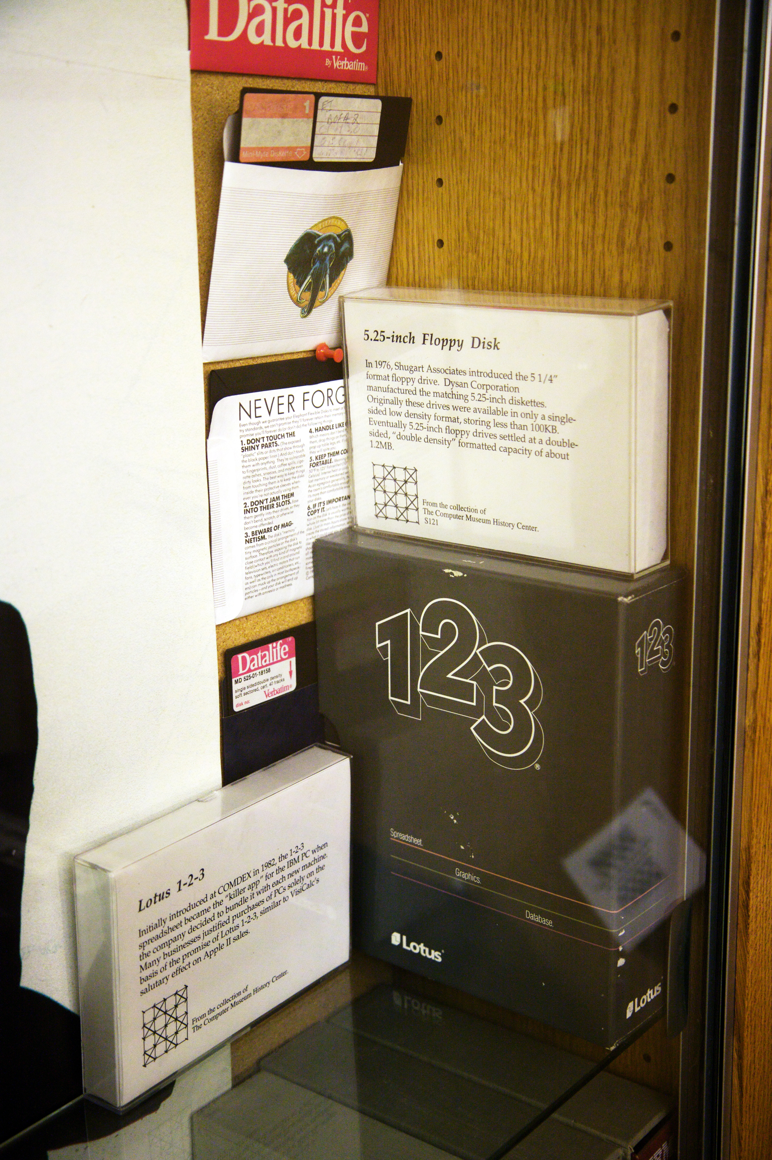 Old 5,25" floppy disks (and a Lotus 1-2-3 Spreadsheet box) at The Computer Museum History Center.